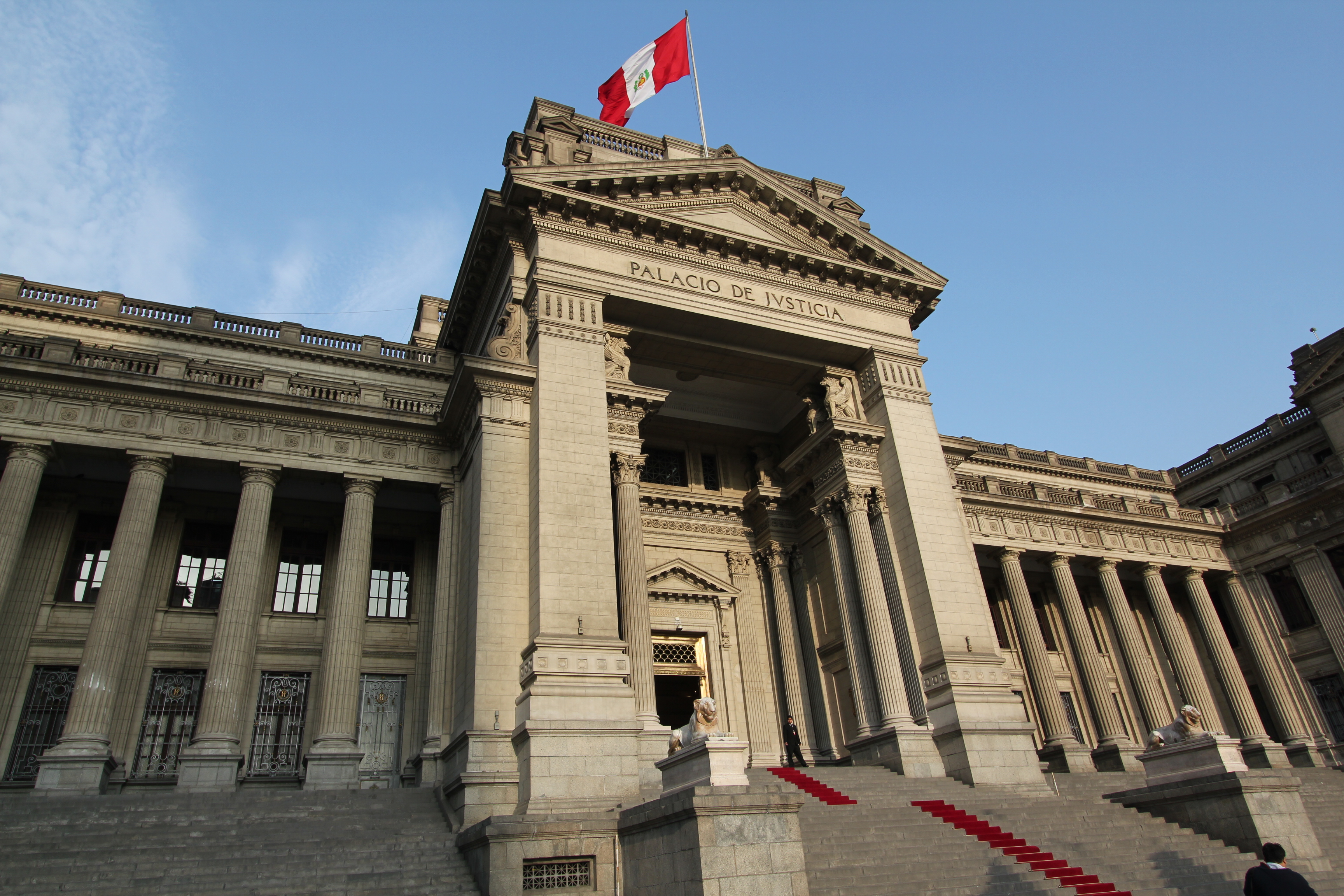 Palacio De Justicia, Lima, Peru.